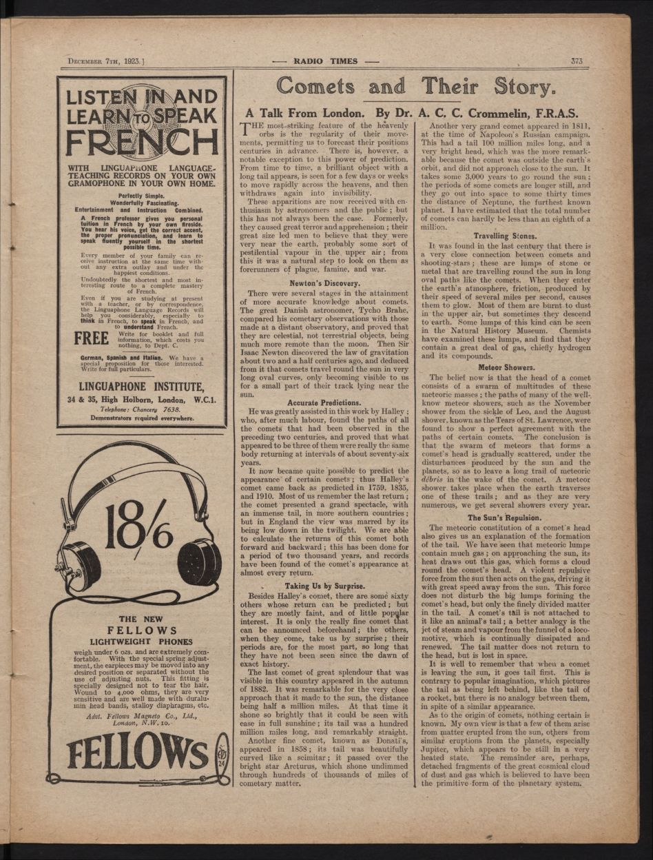 Radio Times - 1923-12-07 - p373, including an article on comets by Andrew Claude de la Cherois Crommelin, and advertisements for Linguaphone, and for Fellows headphones.